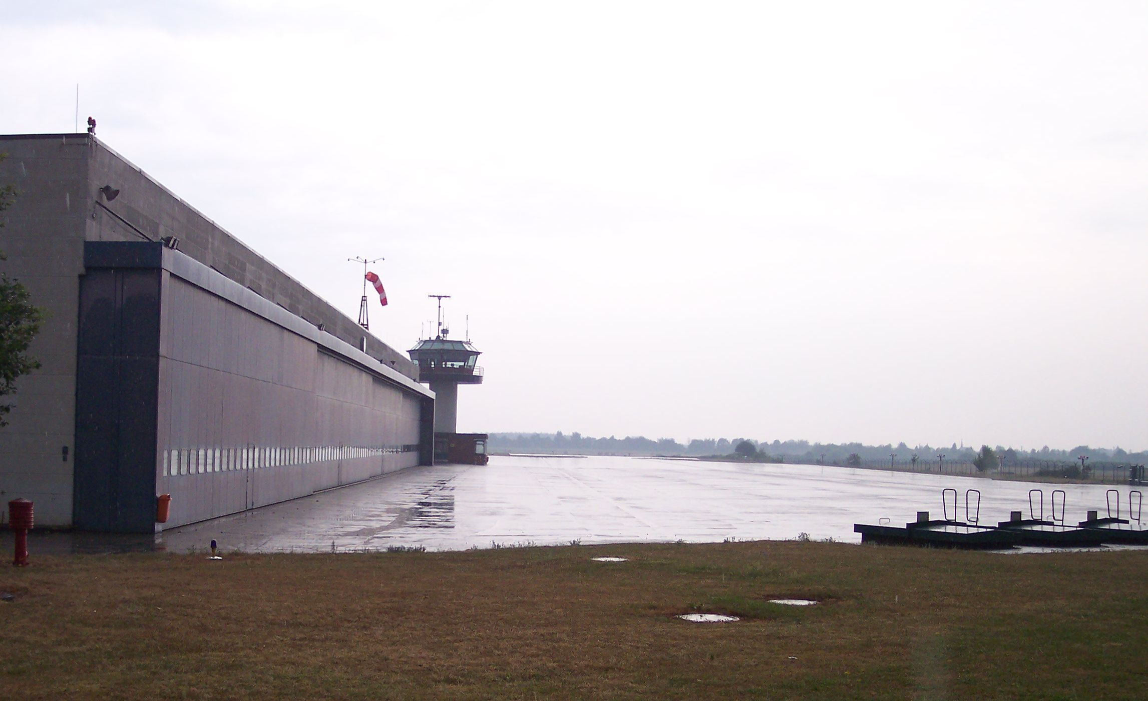 Airfield Hangelar Tower